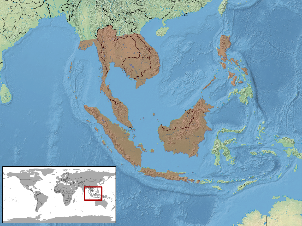 geographic distribution of Gonyosoma oxycephalum (Native: Brunei Darussalam; Cambodia; India (Andaman Is., Nicobar Is.); Indonesia; Lao People's Democratic Republic; Malaysia; Myanmar; Philippines; Singapore; Thailand; Viet Nam)